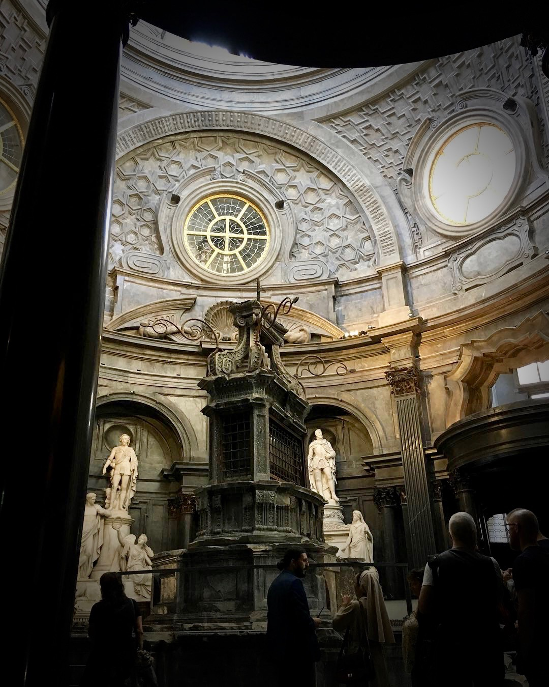 The altar of Chapel of the Holy Shroud, in Turin, Italy, seen from the inside and still under restoration work